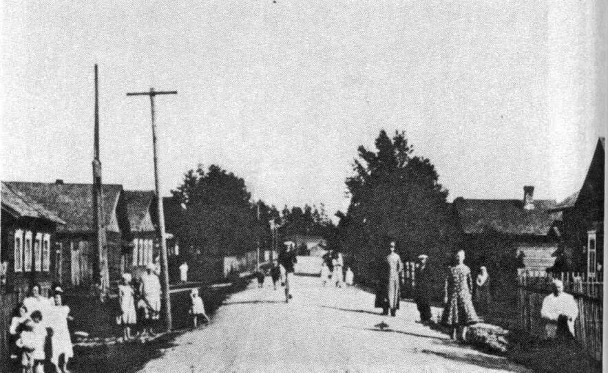 Kangaspelto centrum before Winterwar.